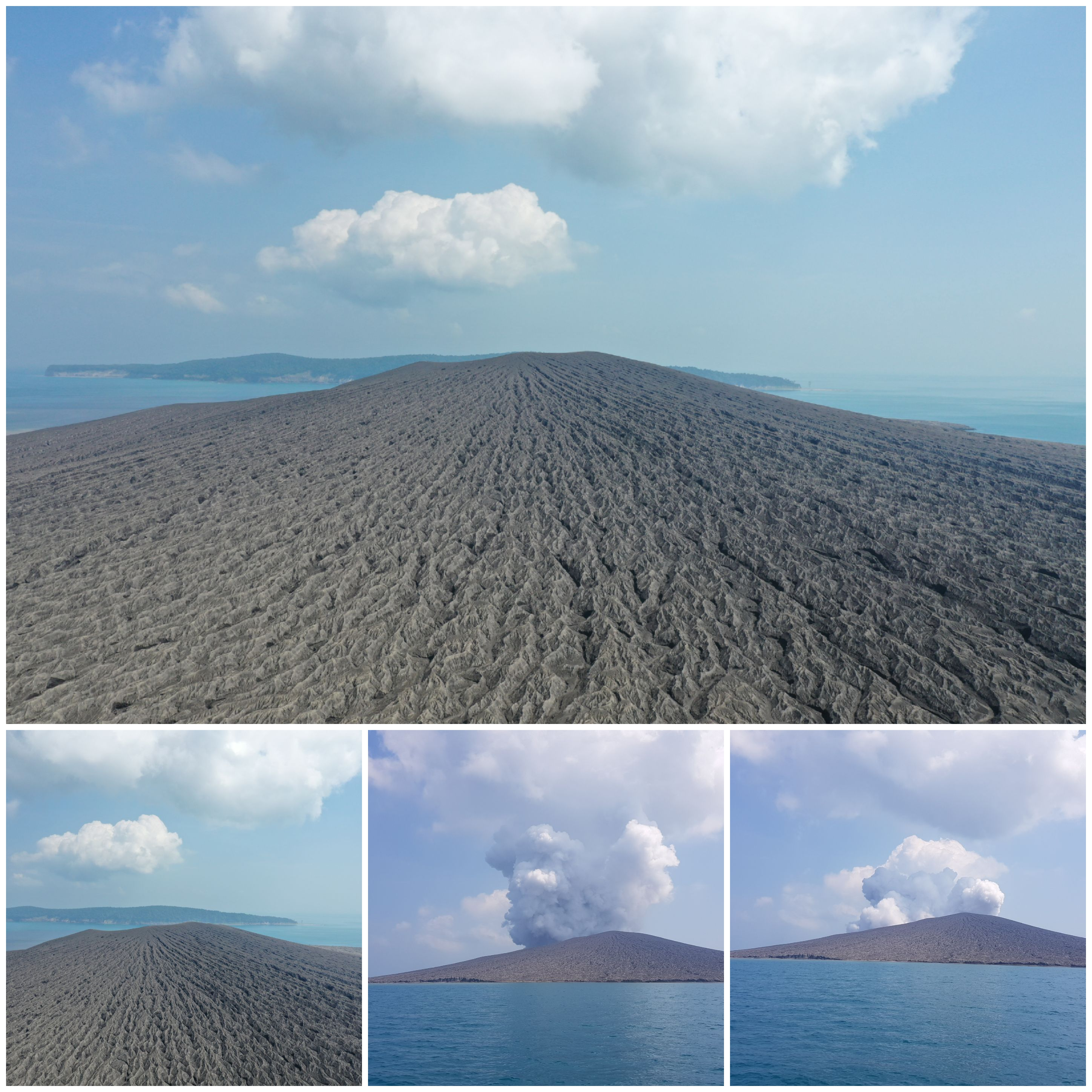 Anak krakatao (krakatoa)